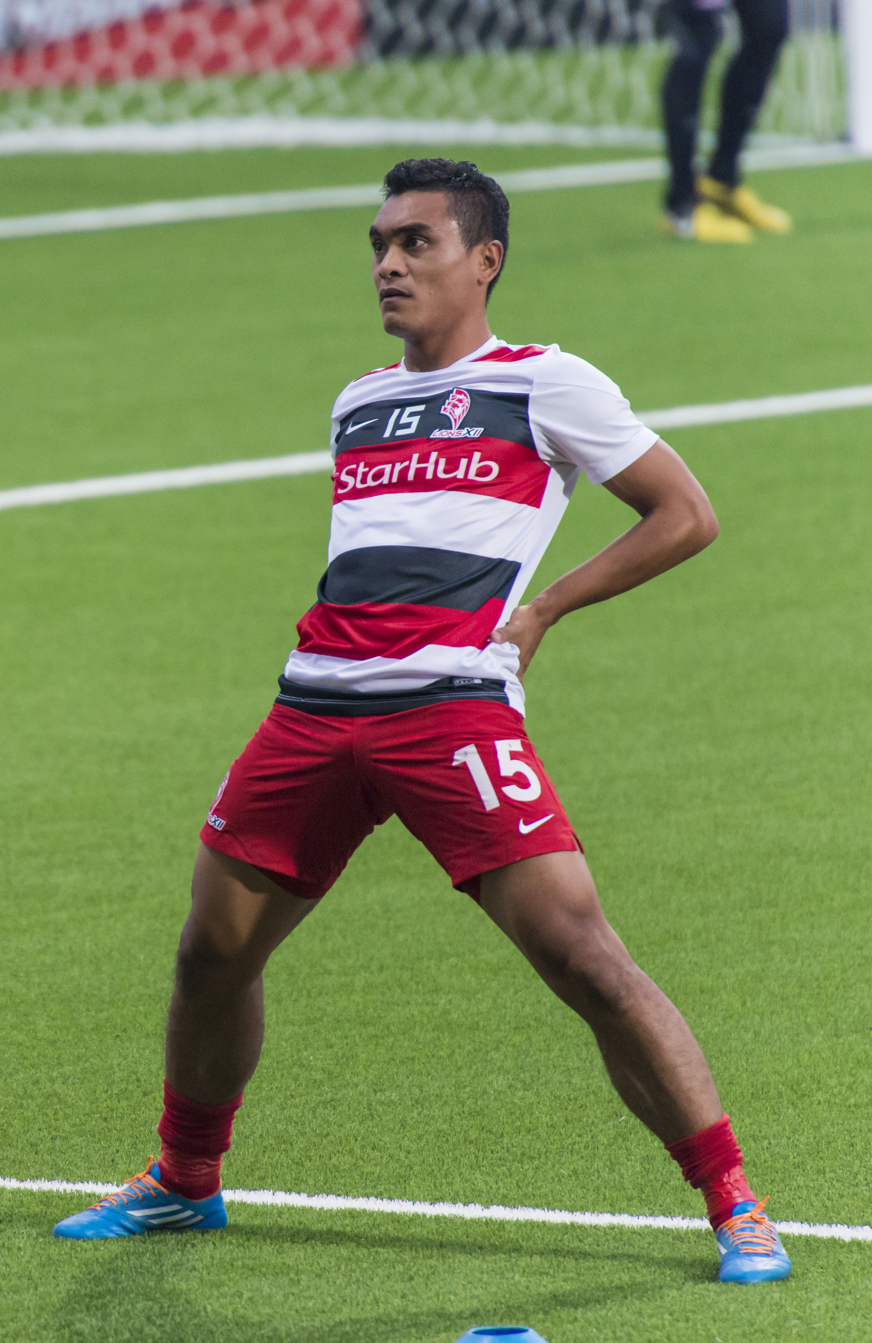 sufian anuar msl 2014 lionsxii kelantan fa